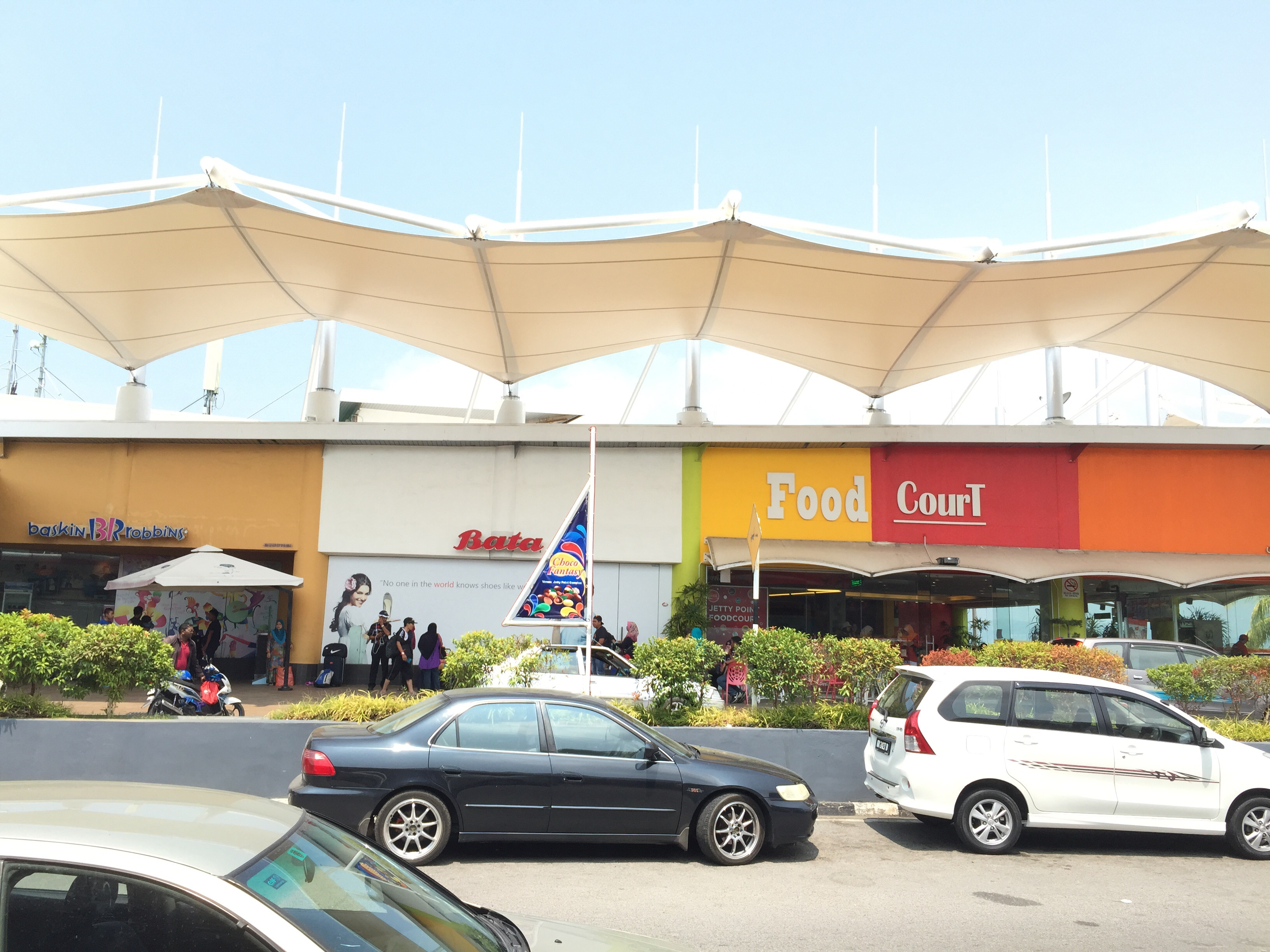 A view of Kuah Jetty, situated at Langkawi Island, Kedah Malaysia